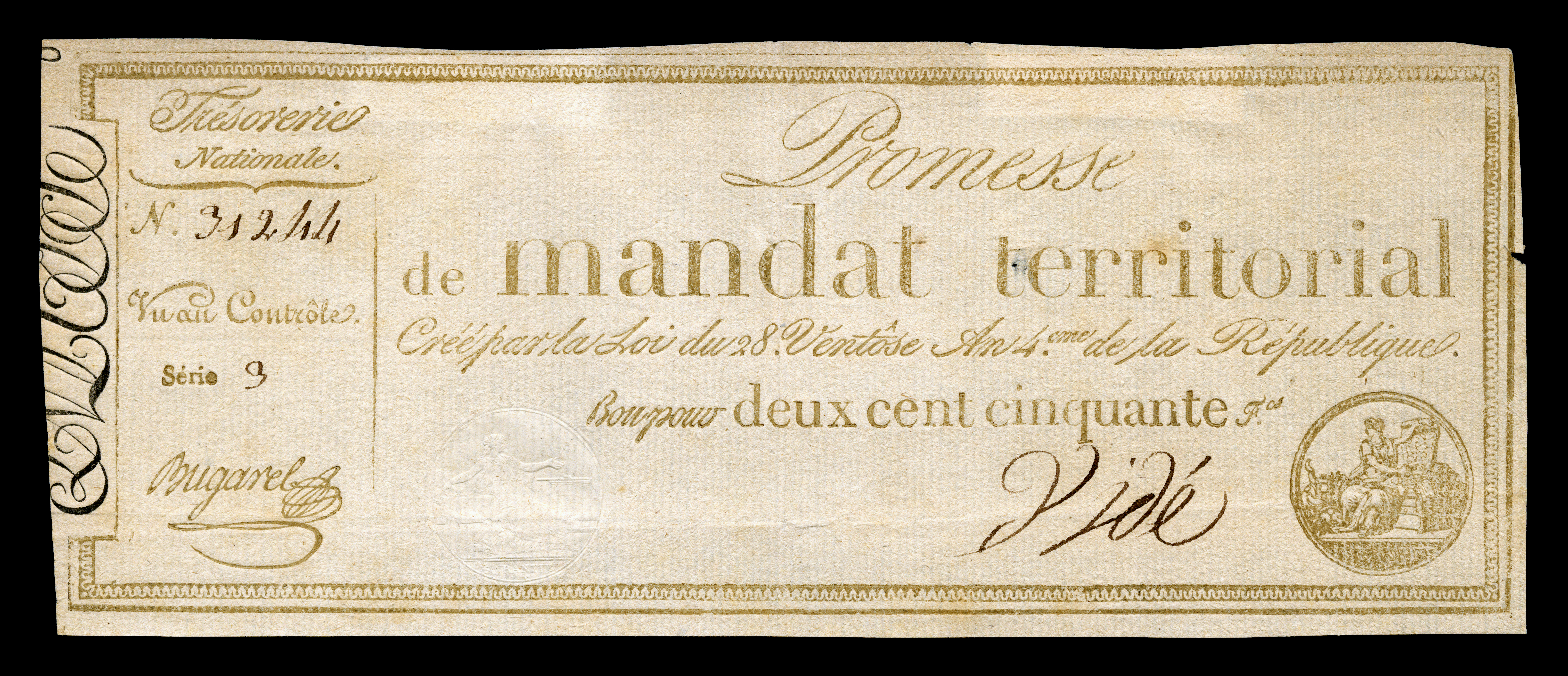 Early French paper currency part of an issue known as Promesses de Mandats Territoriaux (fiat money designed to replace the assignat) - 250 Francs, 1796 Issue (Pick ref# A85b).